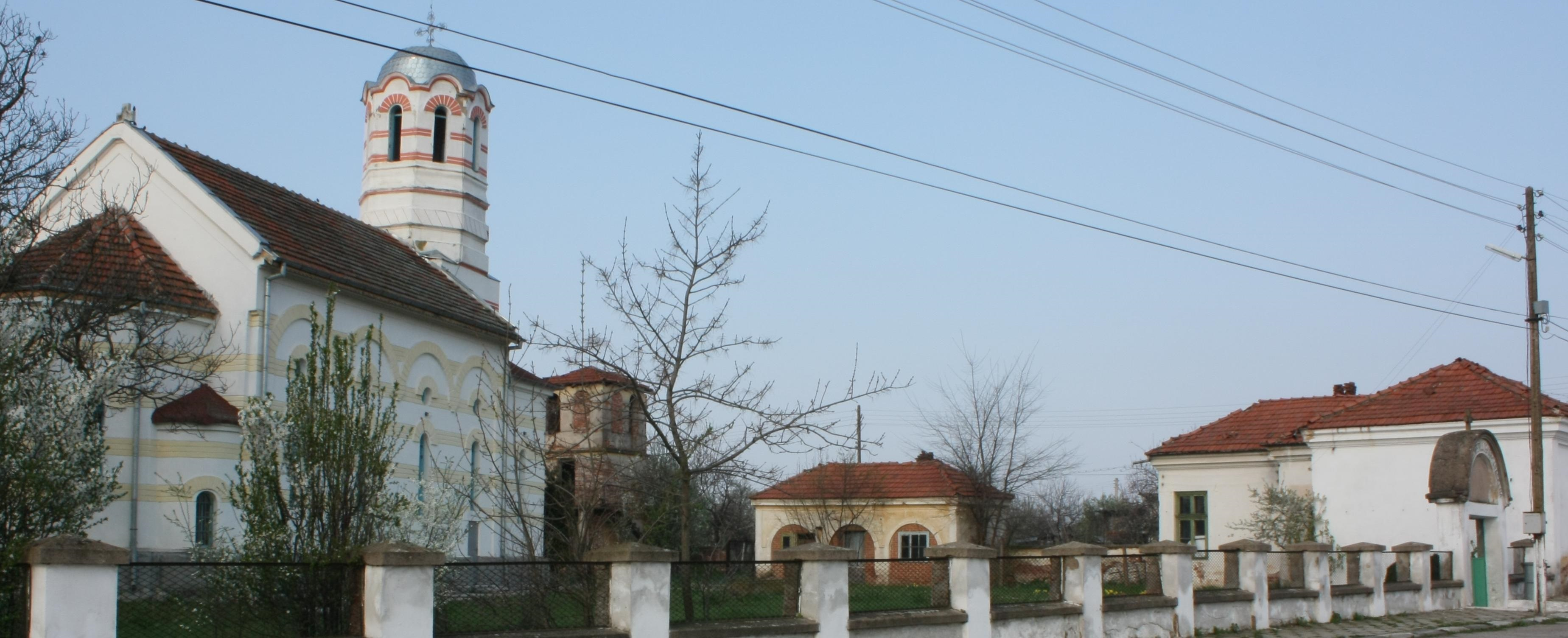 Църква Св. преподобна Параскева, гр. Брусарци.